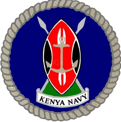 Logo of the Kenyan Navy.